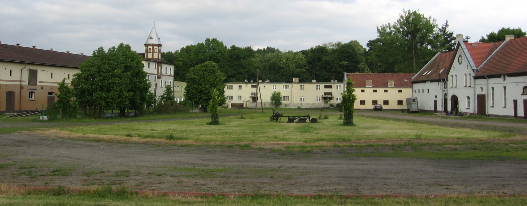 von Korn family farm near their mansion-house in Pawłowice, Wrocław, Poland